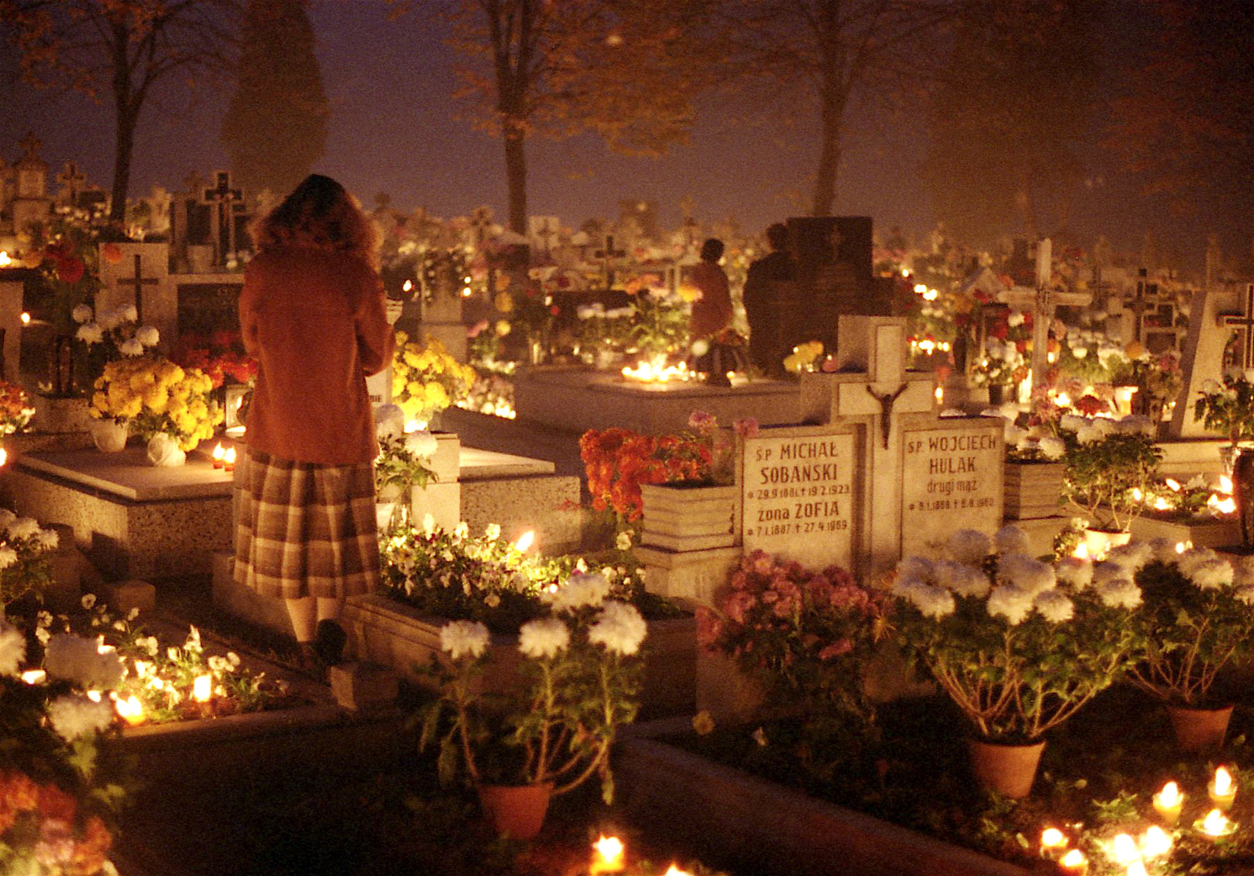 All Saints Day, 1st November 1984 in the Beskiel Cemetery, Oswiecim, Poland.